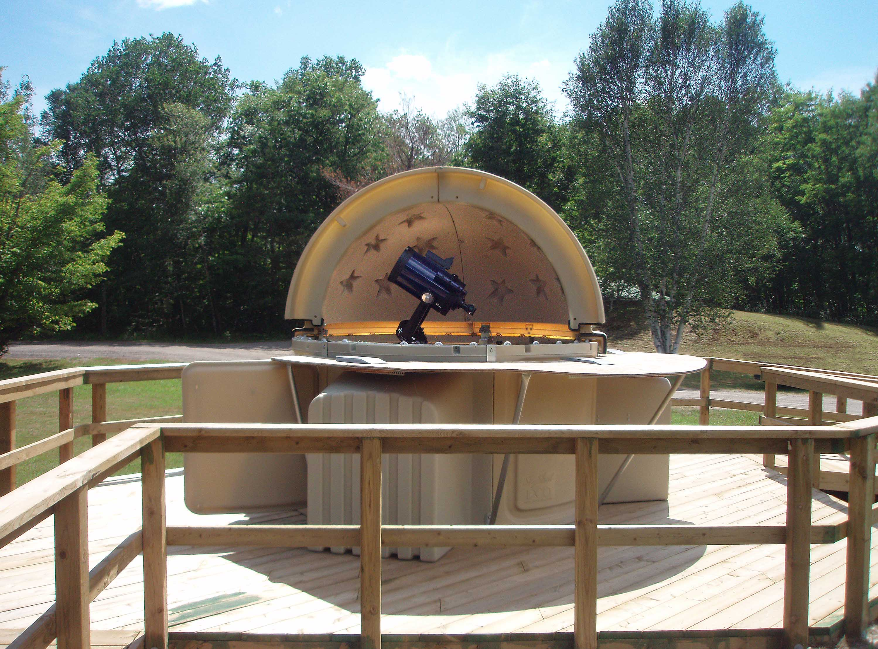 Picture of the Killarney Provincial Park Observatory on Opening Day